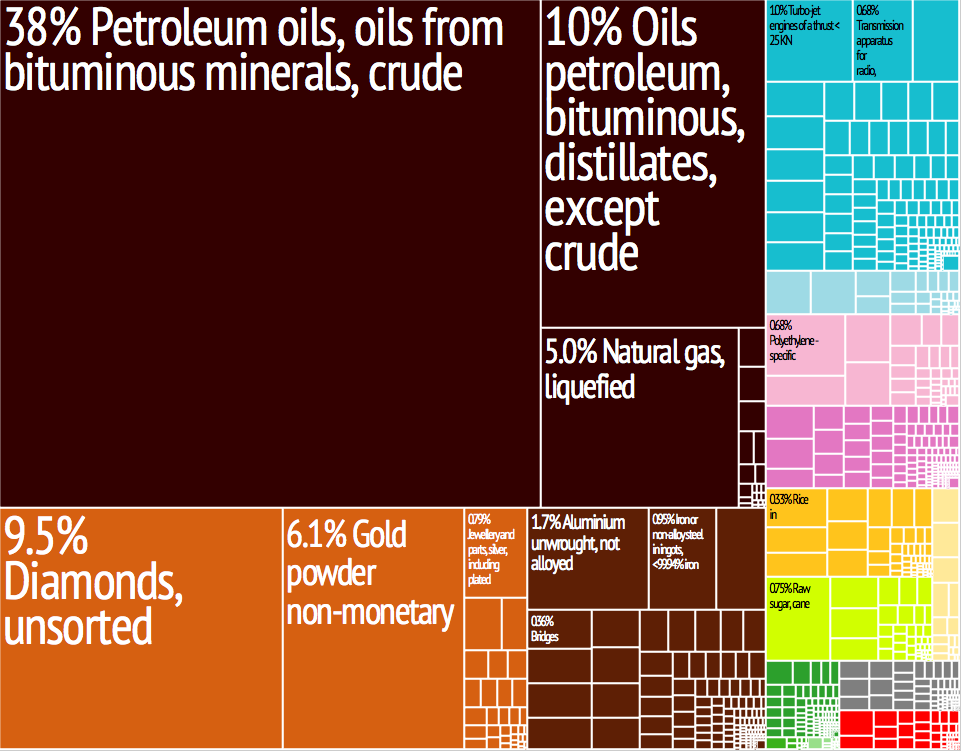 United Arab Emirates Export Treemap from MIT Harvard Economic Complexity Observatory